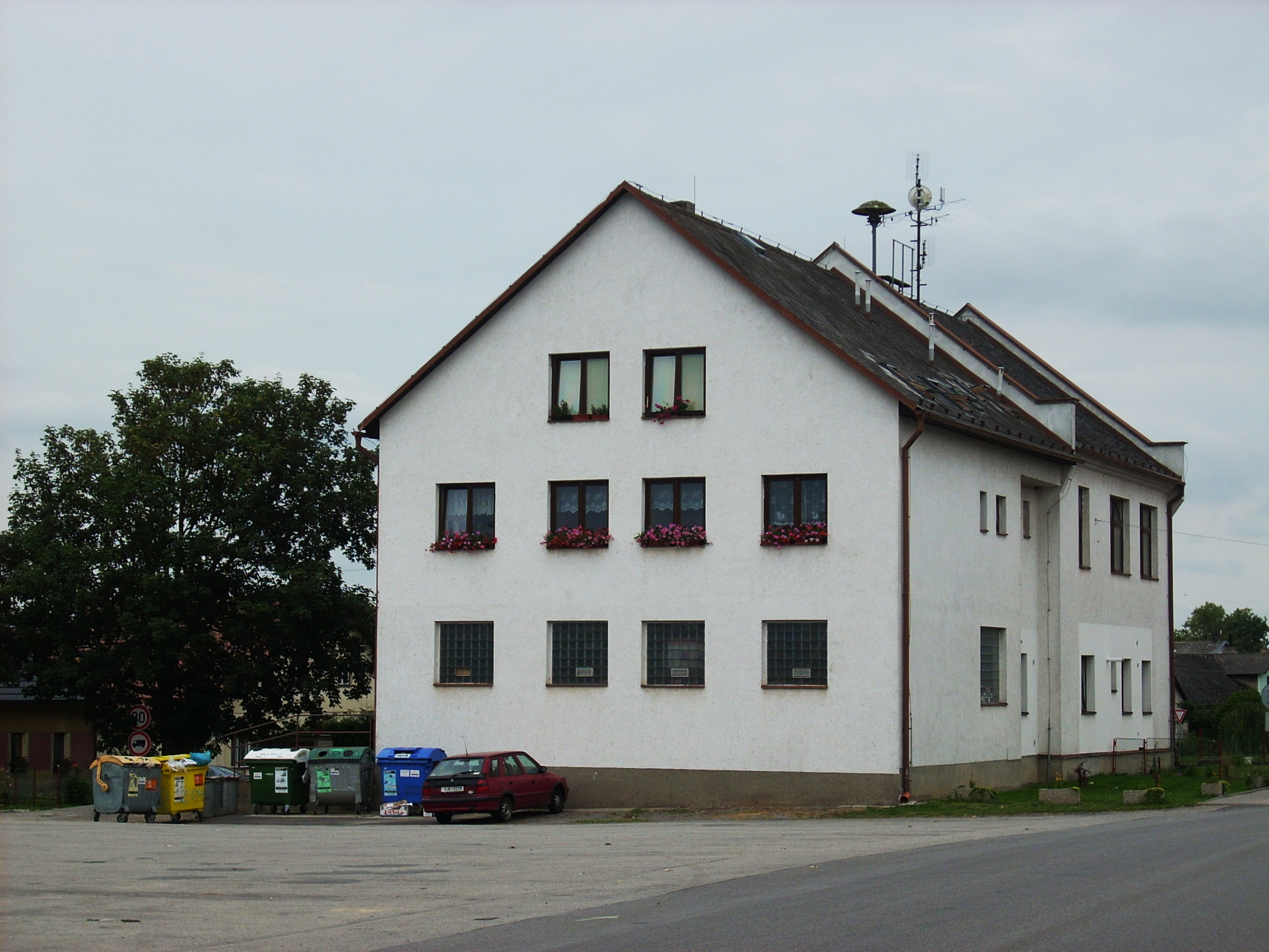 Ždírec (Jihlava District) - building of former school